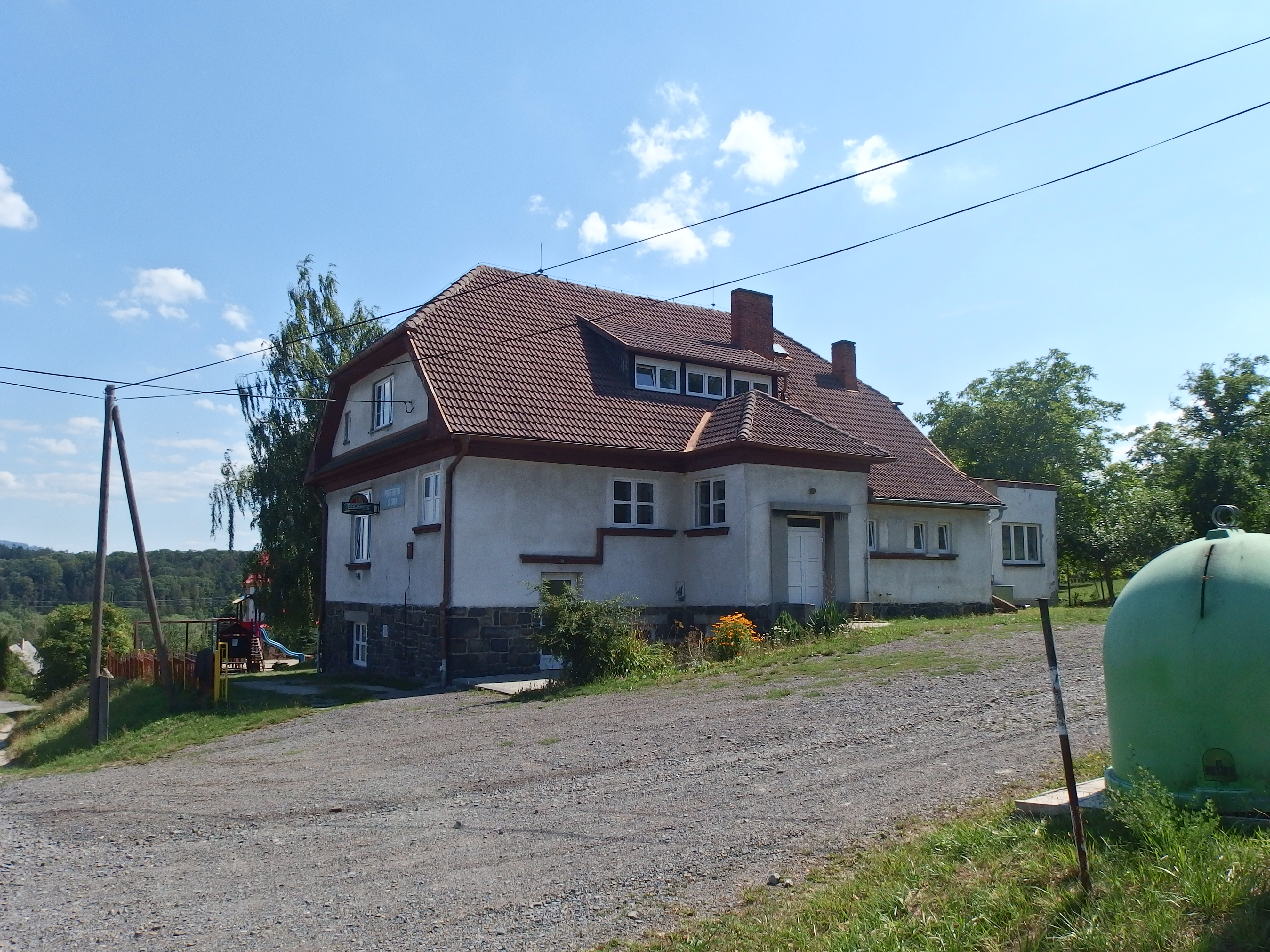 Starý Jičín, Nový Jičín District, Czech Republic, part Heřmanice.